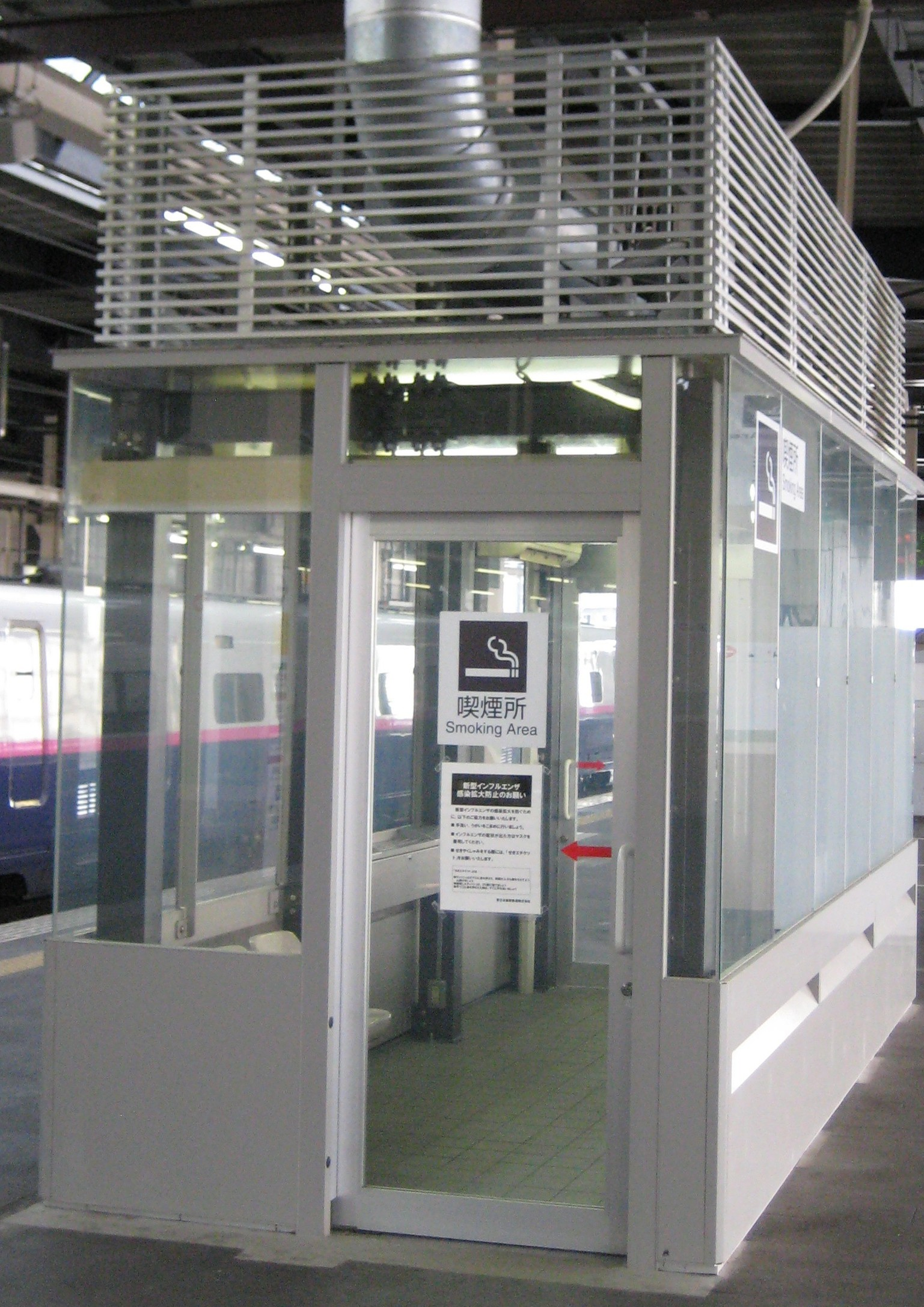 An enclosed smoking area in a Japanese train station. Note air ventilation.